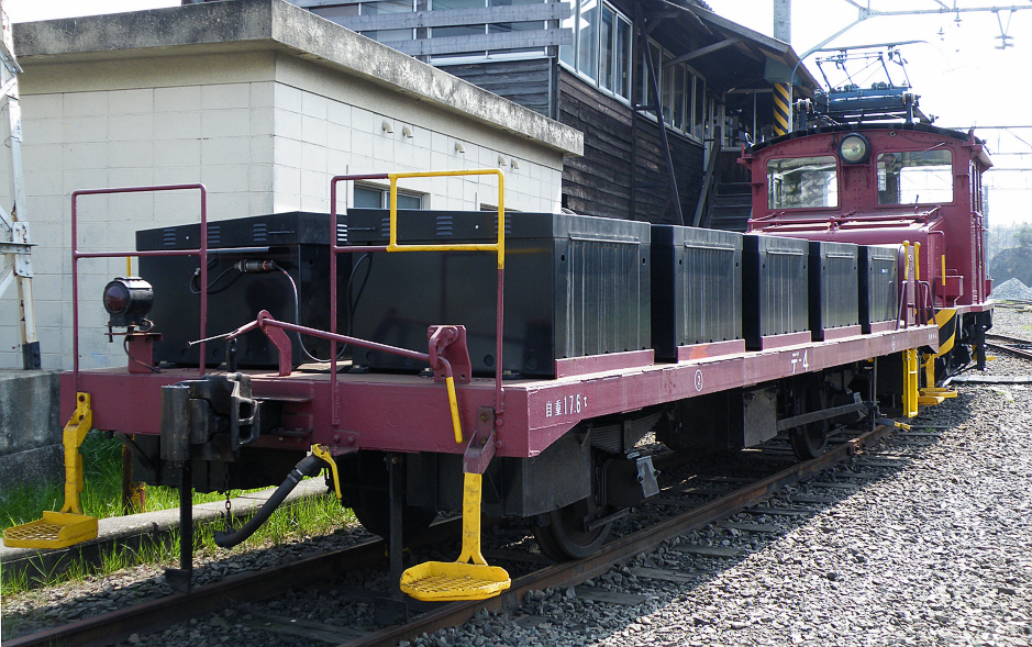 Miike Railway's electric locomotive, Miyaura yard, Omuta city, Fukuoka, Japan.